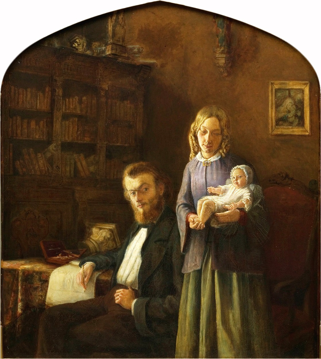 Portrait of Pierre Cuypers, Rosa van de Vin and their Daughter Rosa Cuypers, in their study. In the background a painting with a pièta in the style of Quinten Massijs.